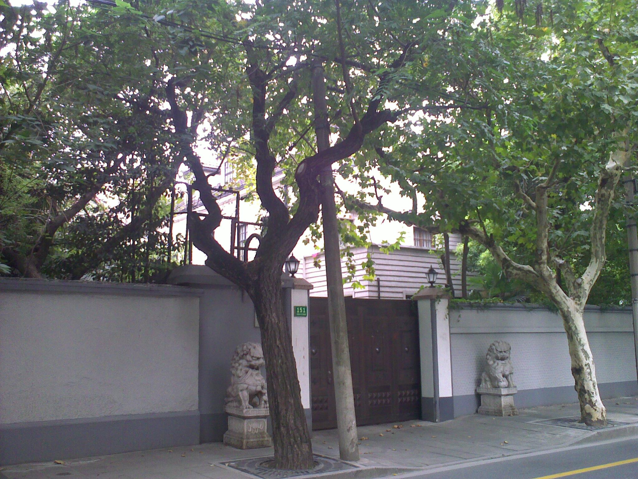 Ürümqi Road No. 151